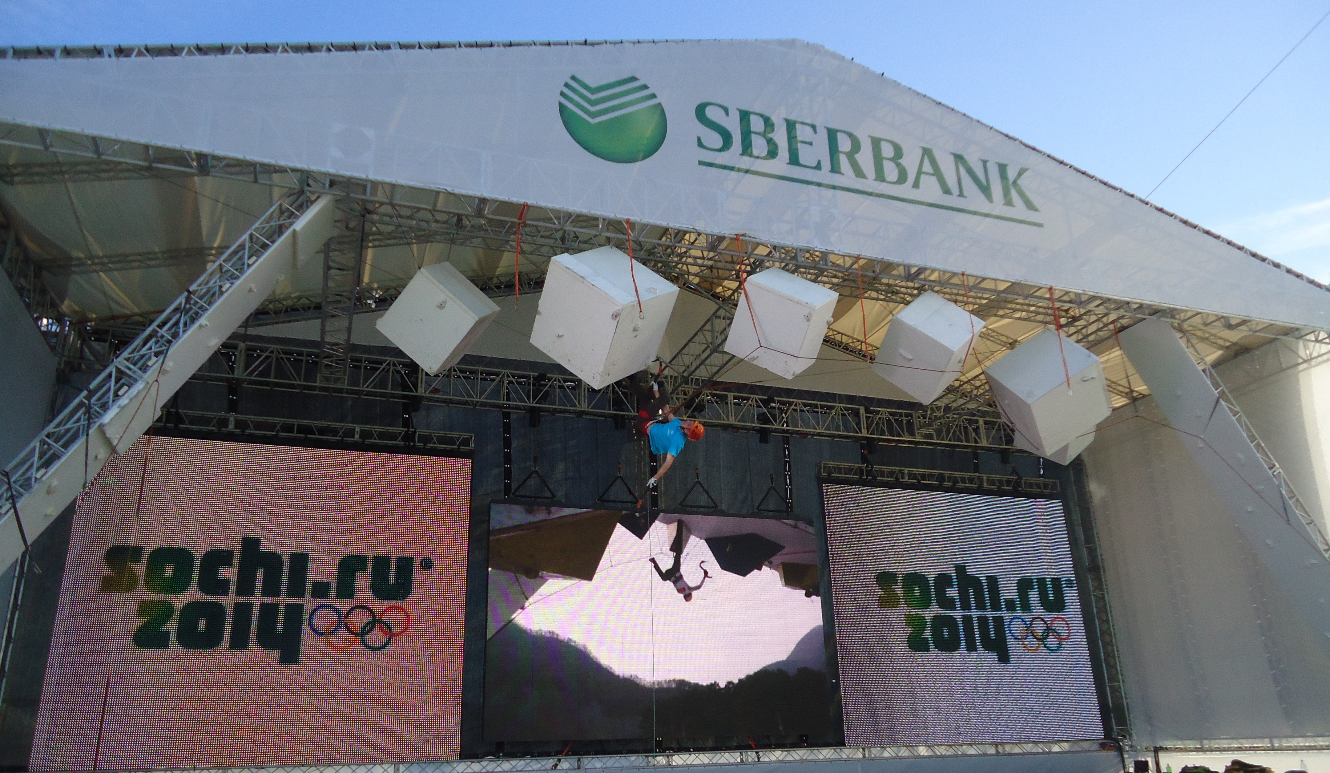 Presentation of ice climbing in the Olympic Park of Sochi on XXII Winter Olympic games